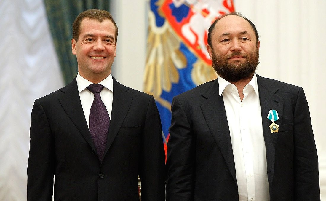 Russian President Dmitry Medvedev presenting the Order of Friendship to film director Timur Bekmambetov on October 31, 2011